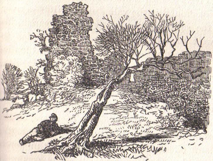 Terringzean castle ruins, Cumnock, East Ayrshire, Scotland